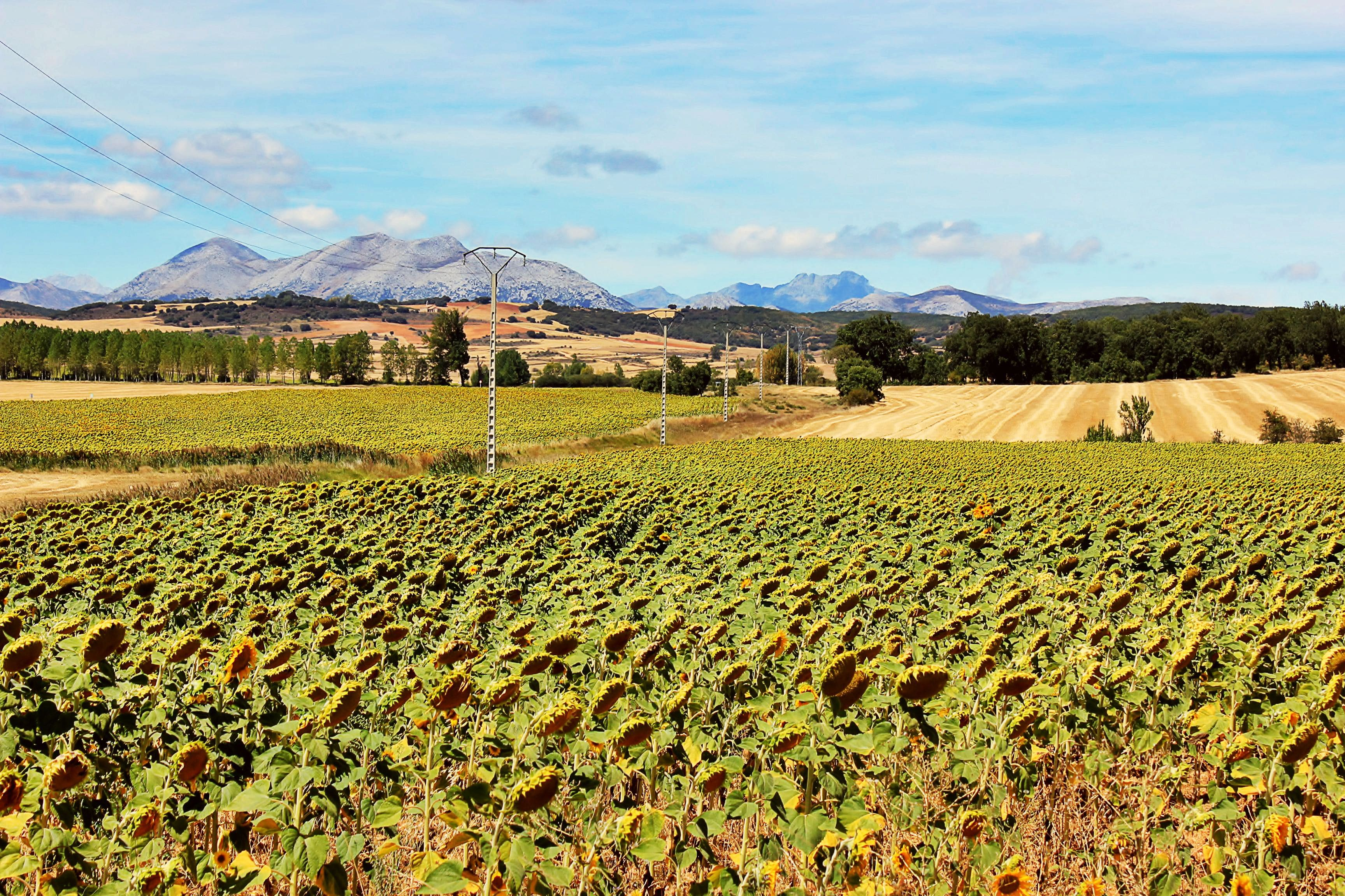 Countryside Landscape near Palencia, Spain